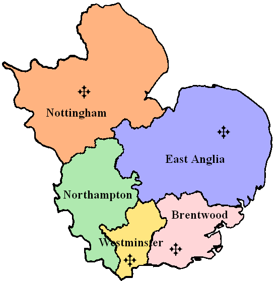 Catholic Province of Westminster. This is a current map of the ecclesiastical province in the Catholic Church. The crosses mark where the current Cathedrals of each diocese is located. The specific dioceses are in different colours.